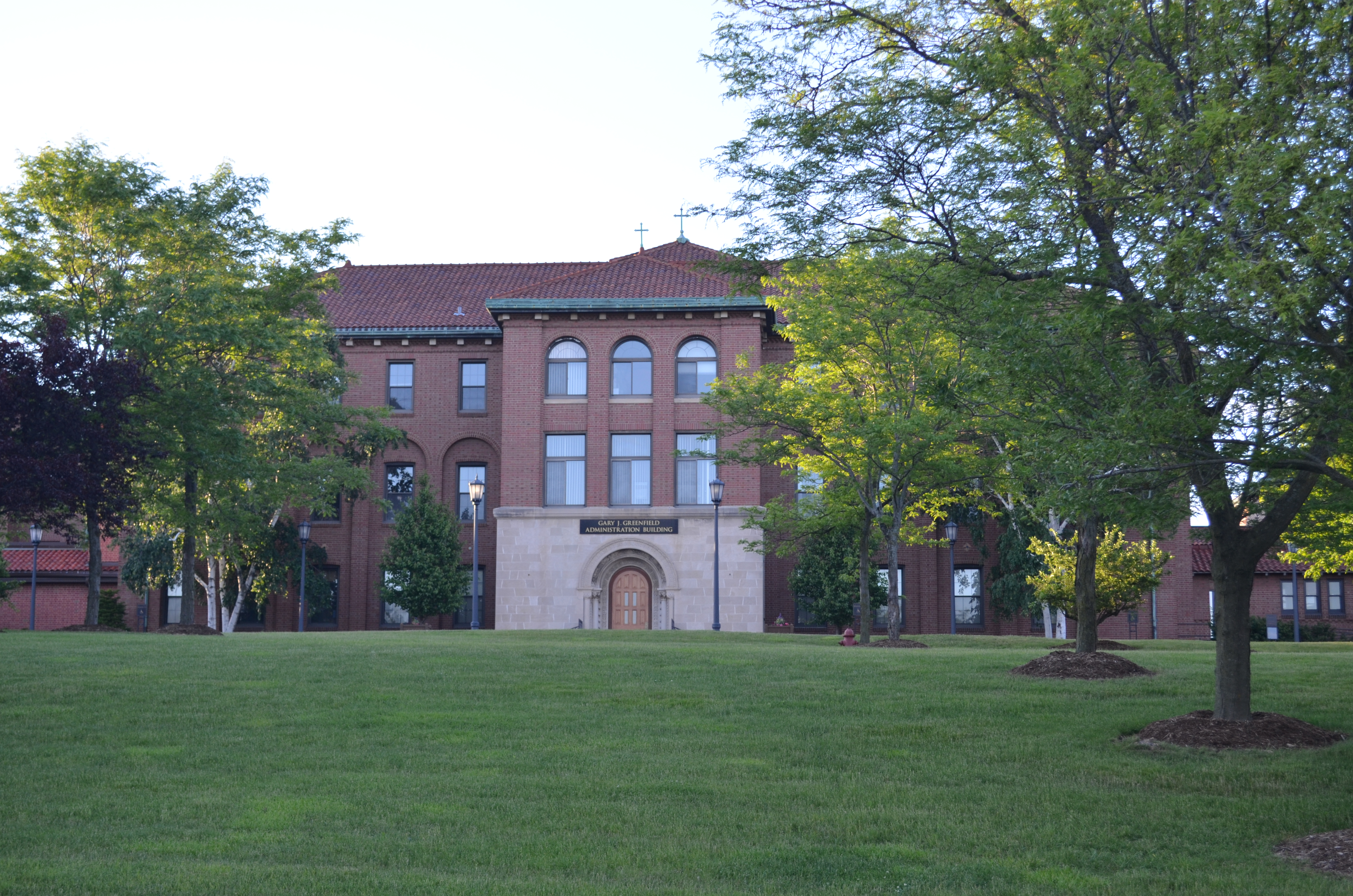 The Gary J. Greenfield Administration Building at Wisconsin Lutheran College in Milwaukee, WI.